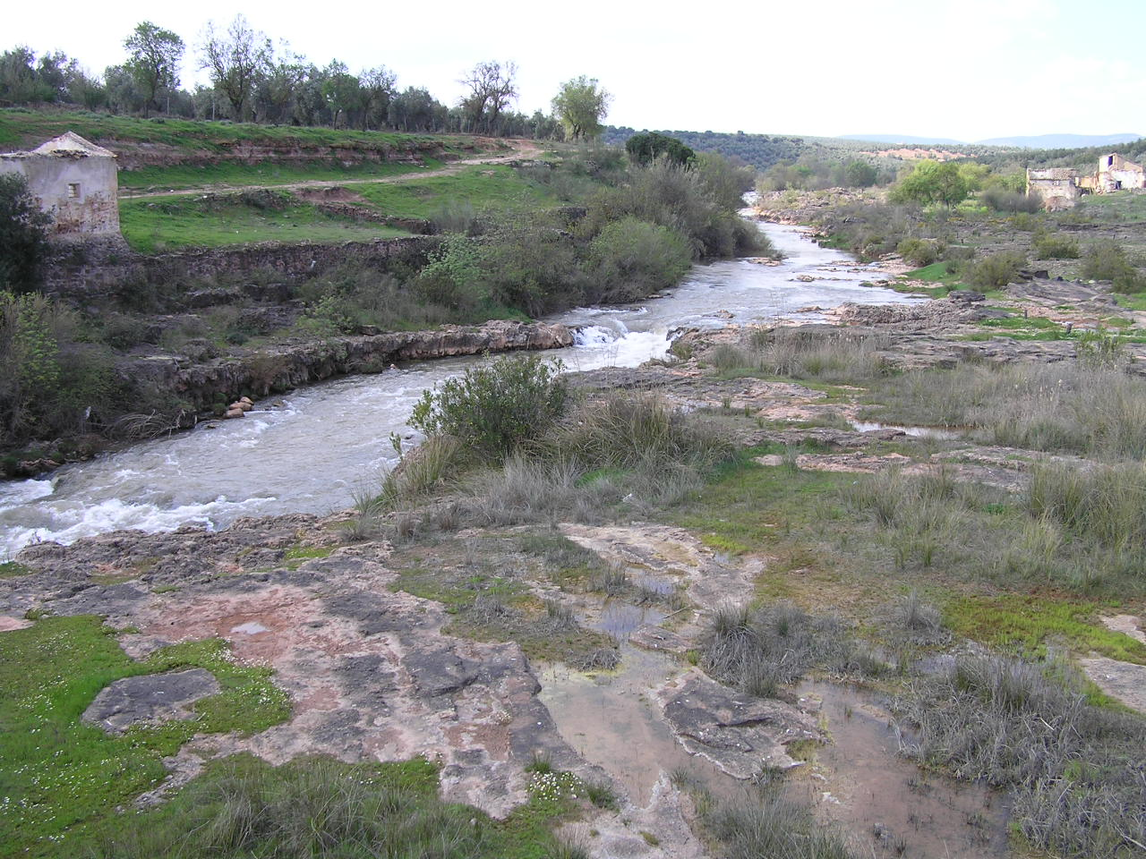 Terrazas del Guadalimar